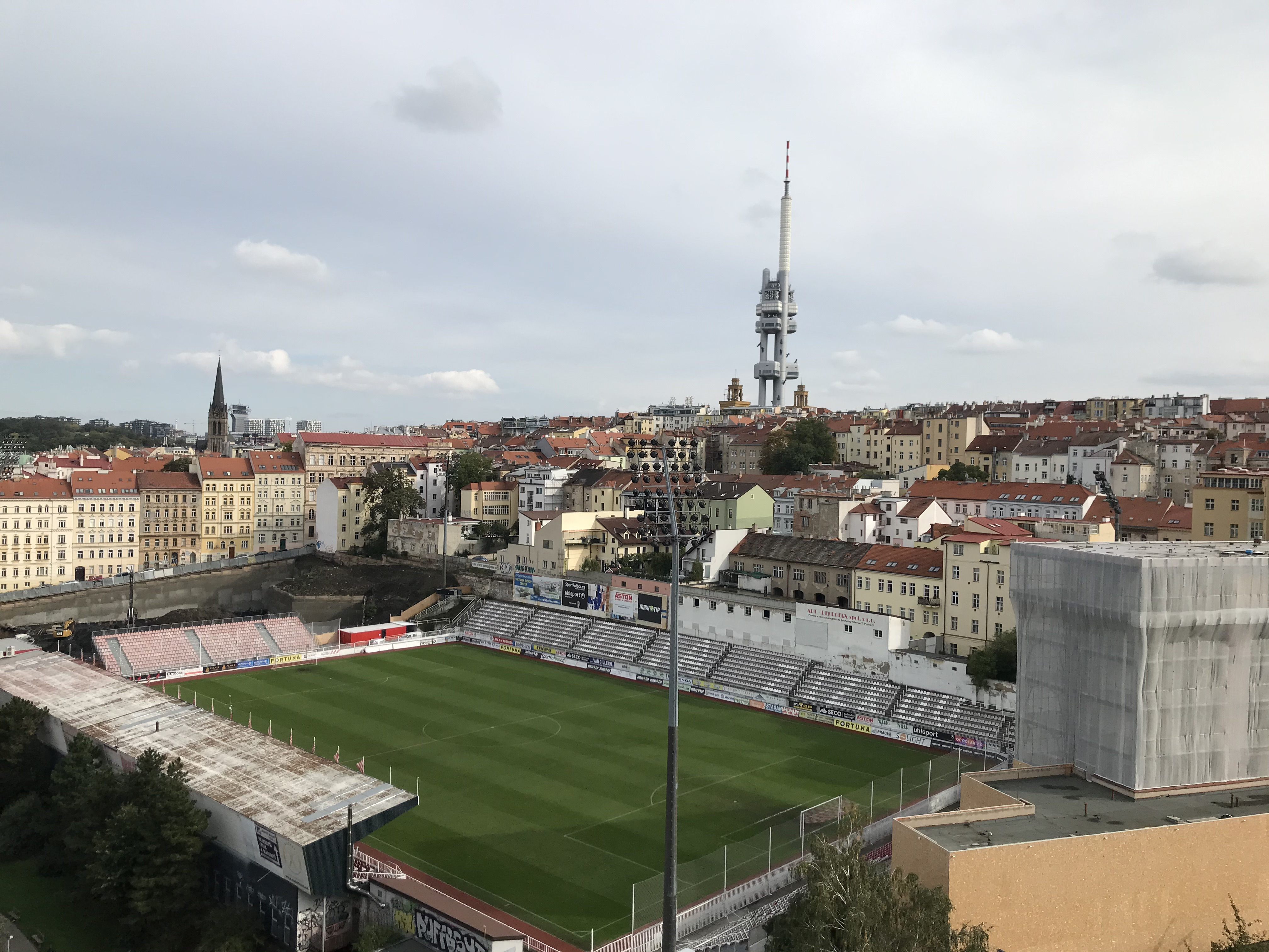 Stadion FK Viktoria Žižkov viewed from dům Radost terrace and Žižkov district with a Žižkov TV Tower in the background